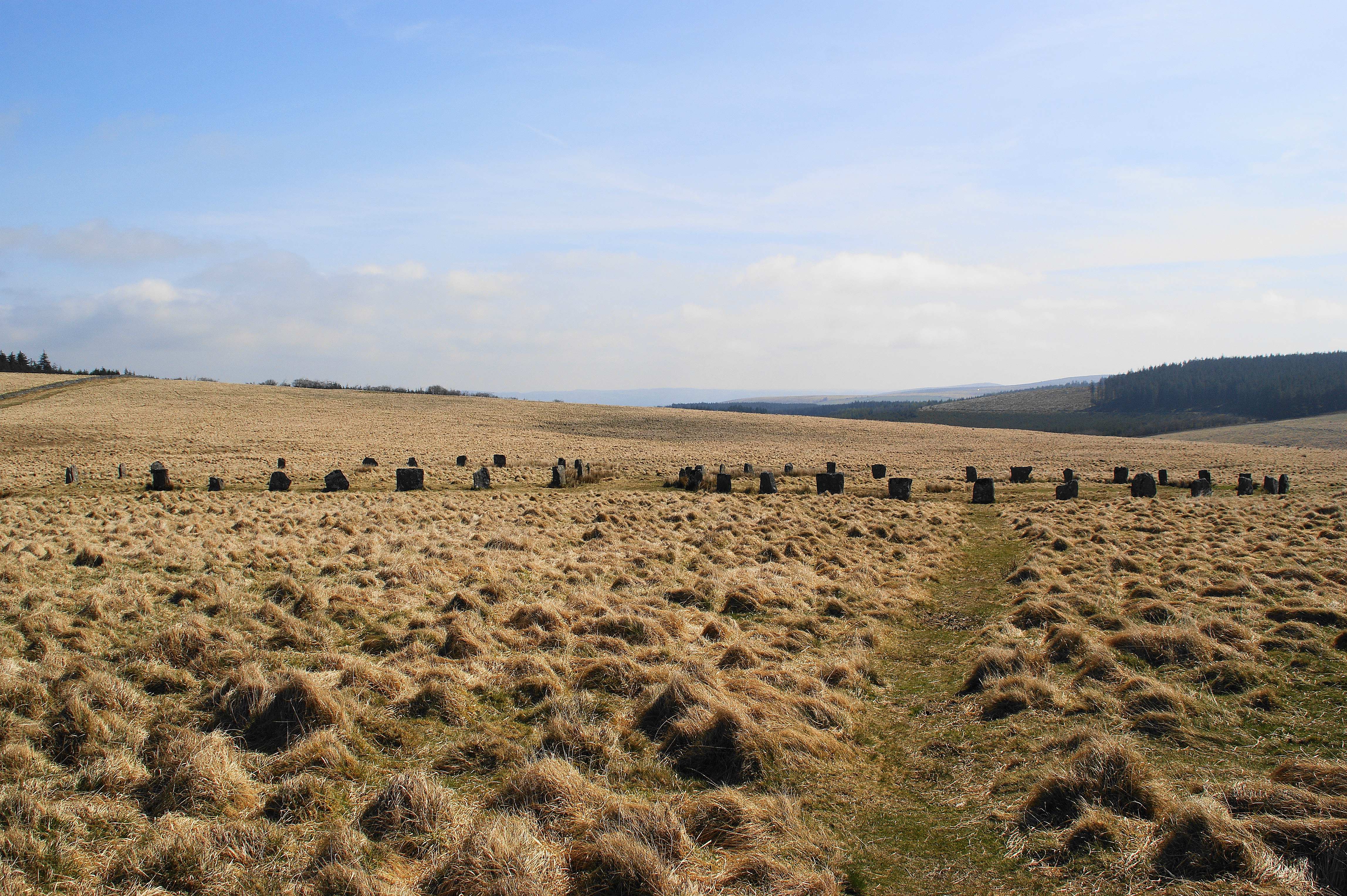 Grey Wethers is a pair of stone circleDartmoor. A view of both circles from the west. The forestry in the background surrounds Fernworthy reservoir.